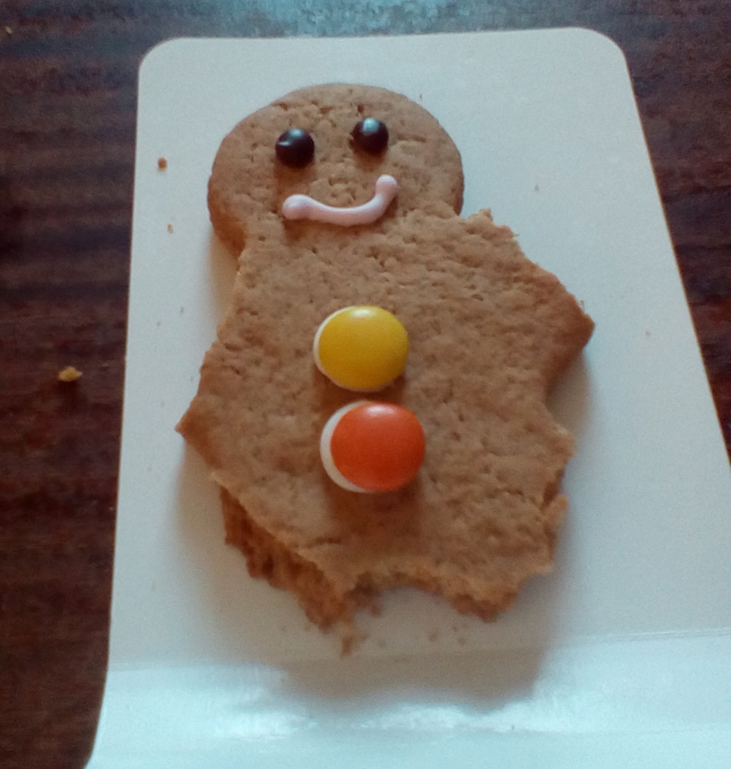 A gingerbread man who has been half consumed (much to my delight!).